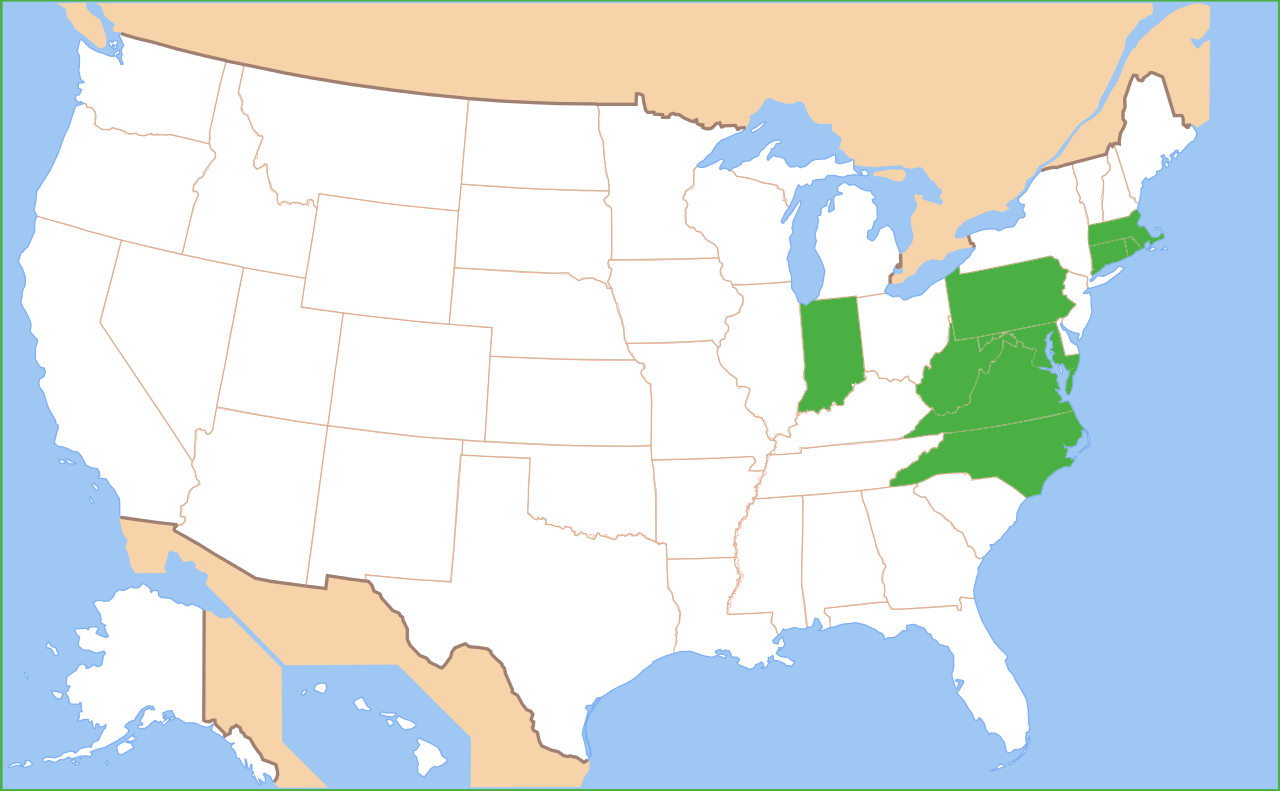 Map of fifty United States, emphasizing in green, those states that have Duckpin bowling. File is derived from the following image: Map of USA without state names